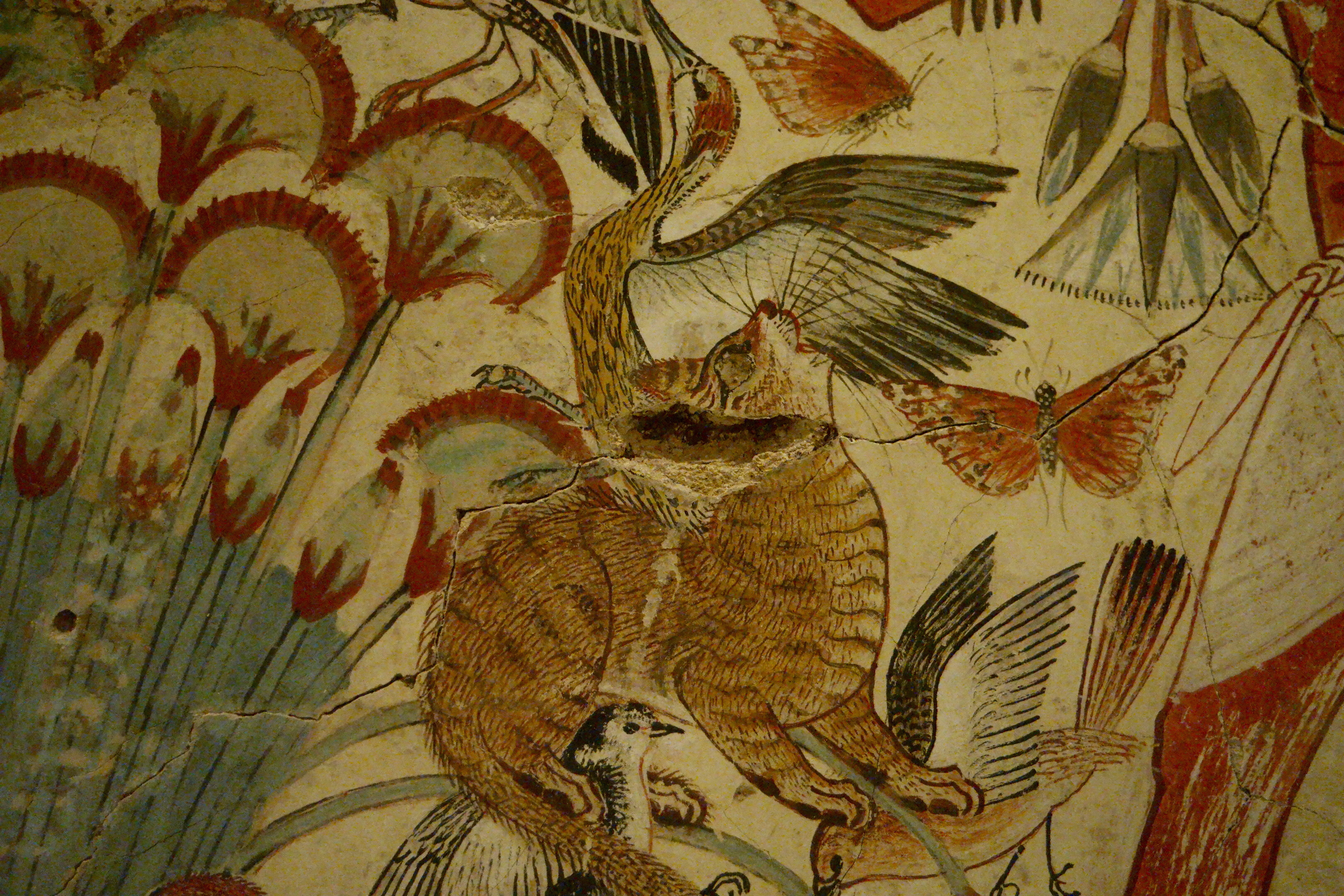 British Museum, Room 61.